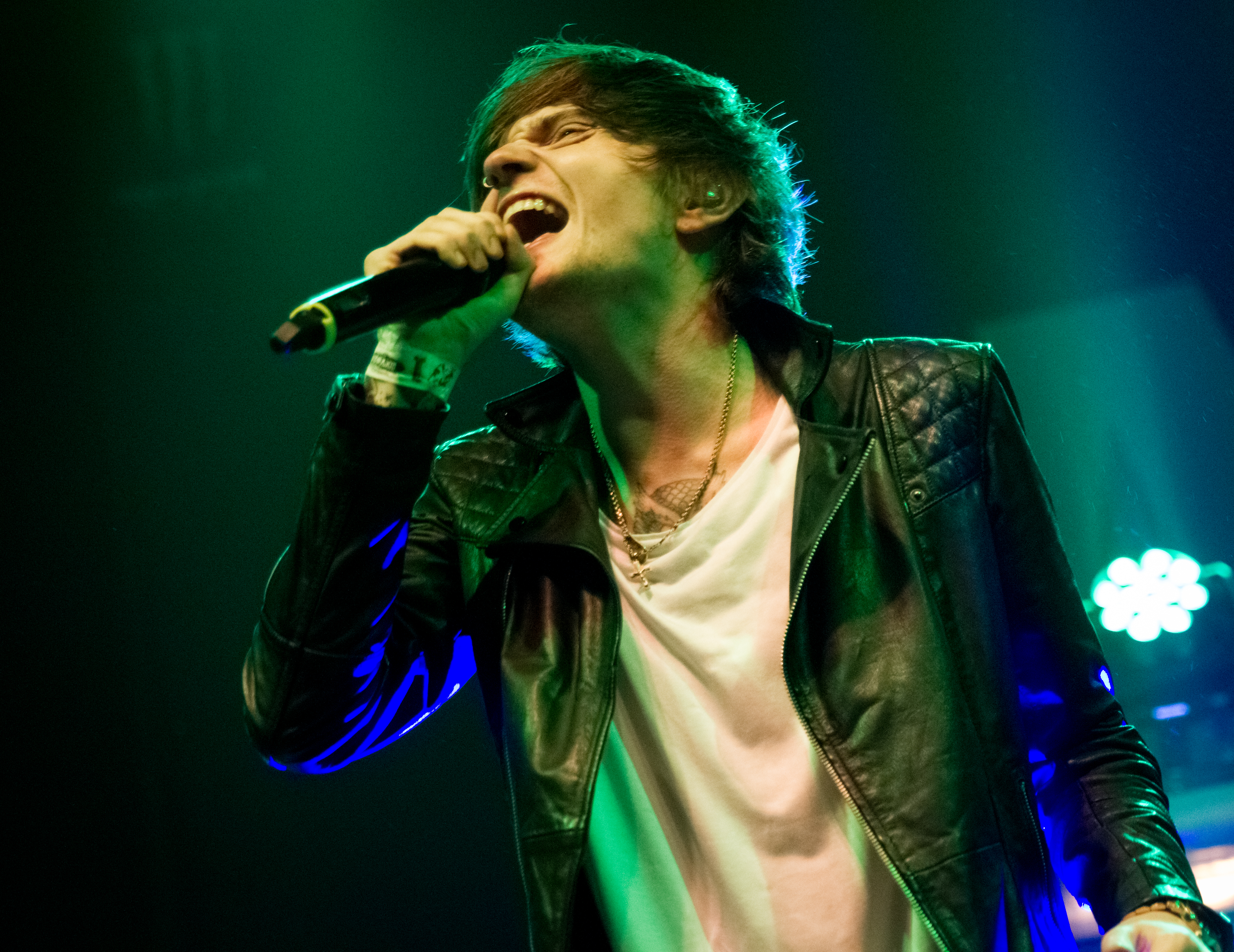 Asking Alexandria - Rock am Ring 2015